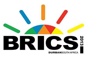 Logo BRICS